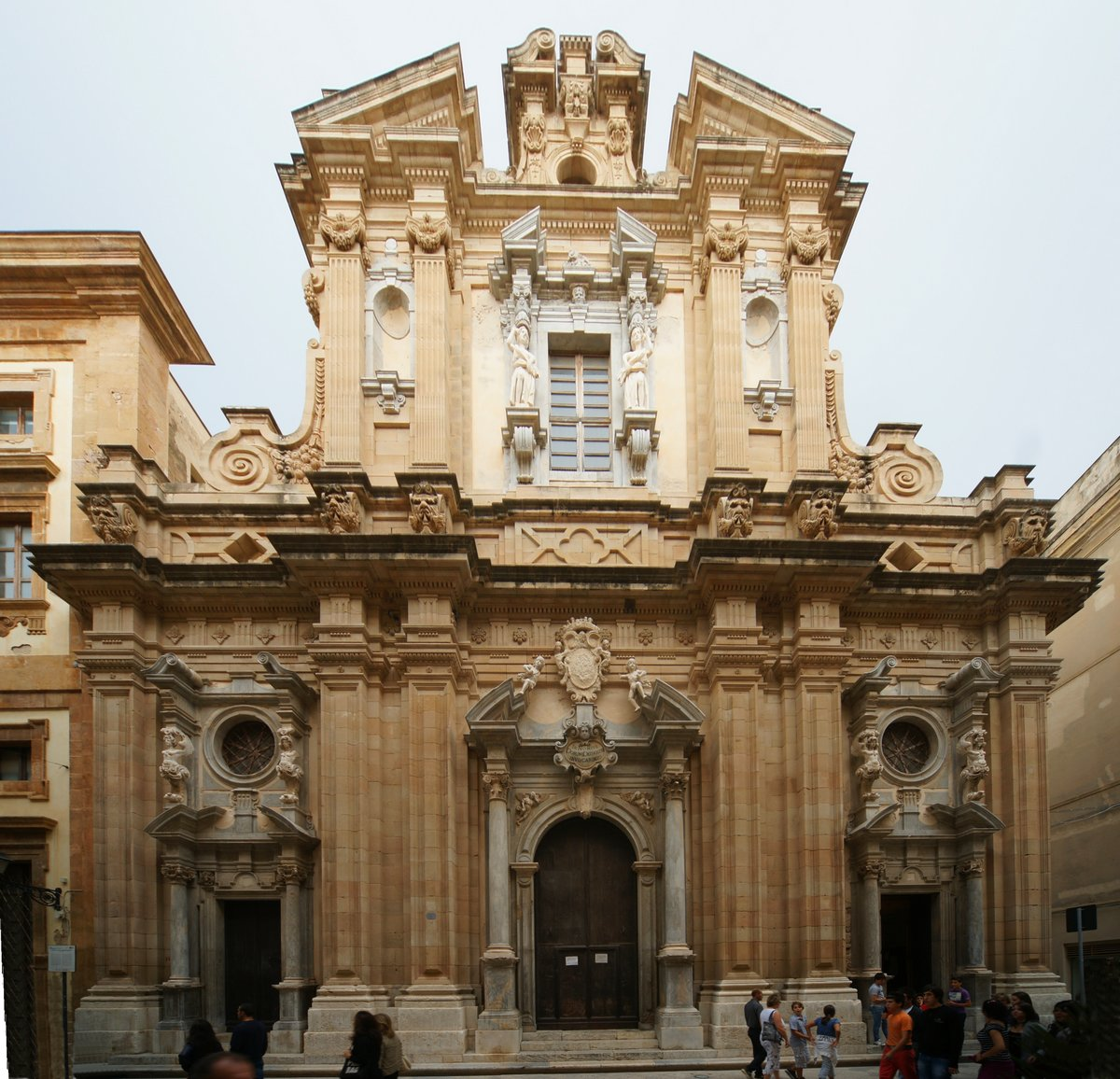 Chiesa del Collegio dei Gesuiti